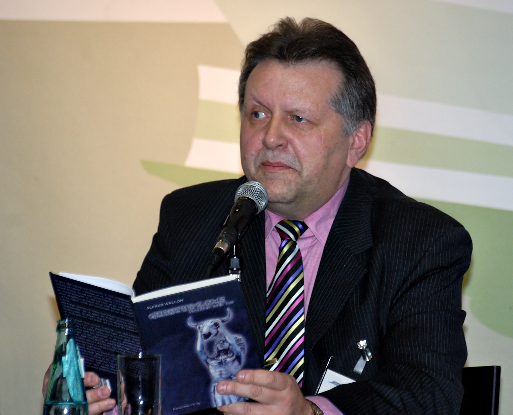 This image shows Alfred Wallon, a German author, in the year 2008.